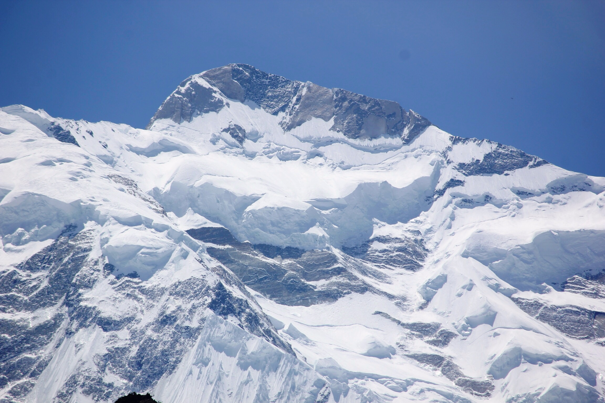 The closest view of serac of Rakaposhi